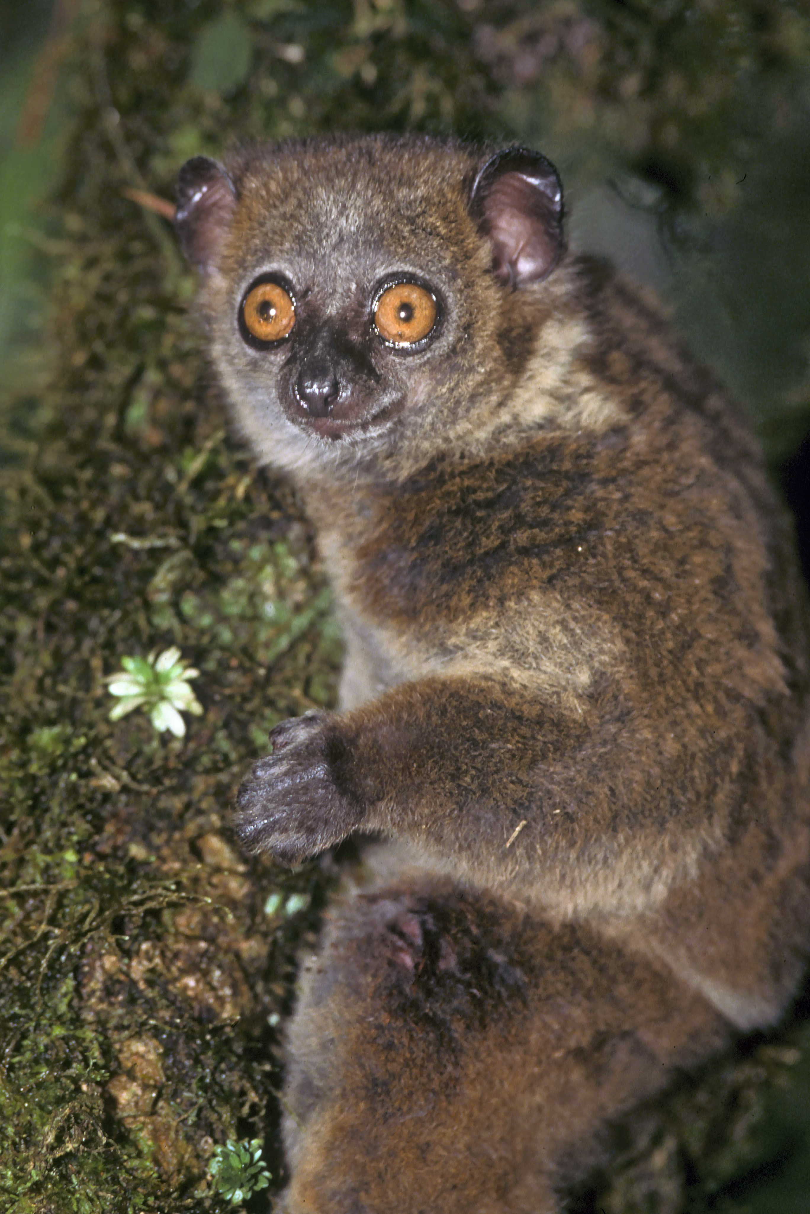 Small-toothed sportive lemur (Lepilemur microdon) @ Vohiparara, Ranomafana National Park